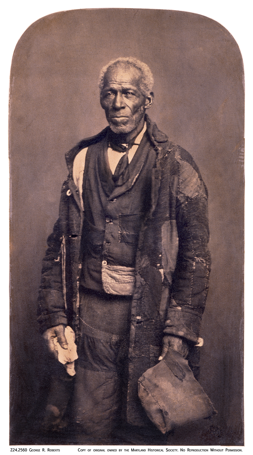 Full-length portrait of the privateer George R. Roberts (d. 1861) of Canton, Baltimore. Photograph by Daniel Bendann (d. 1914) and David Bendann (d. 1915), taken circa 1859-1865. Photograph from the Portrait Vertical File Collection, reference number z24-2560, courtesy of the H. Furlong Baldwin Library, Maryland Historical Society, Baltimore.